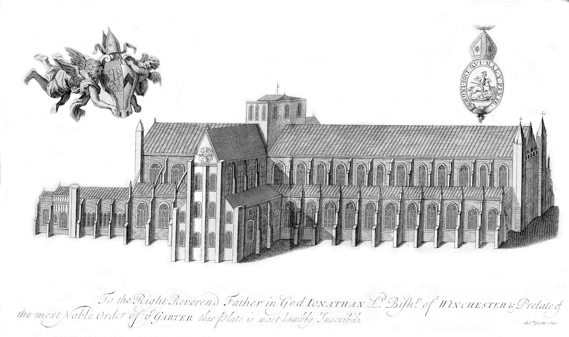 An engraving of Winchester Cathedral circa 1723.